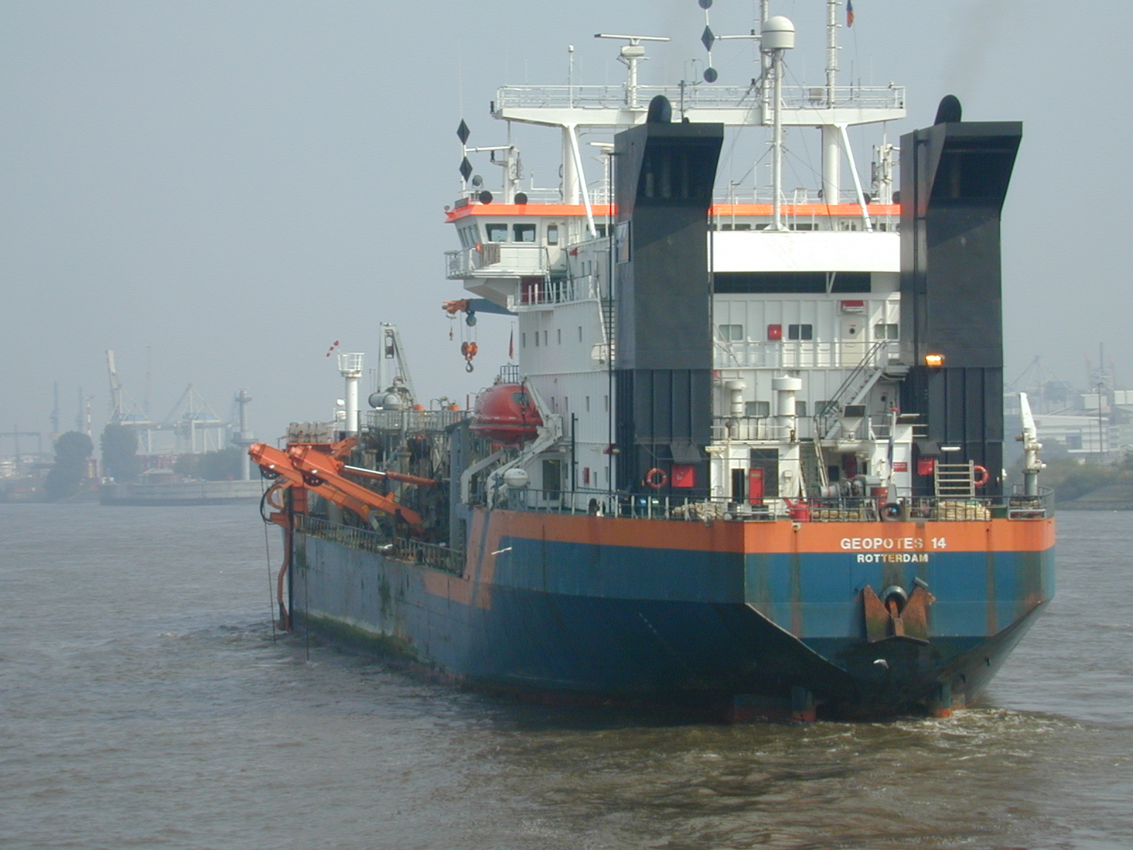 Dredge "Geopotes 14" entering Hamburg Harbour beginning its exertion (location: Hamburg harbour, downstream of the Landungsbrücken). Detail: View on the portside stern